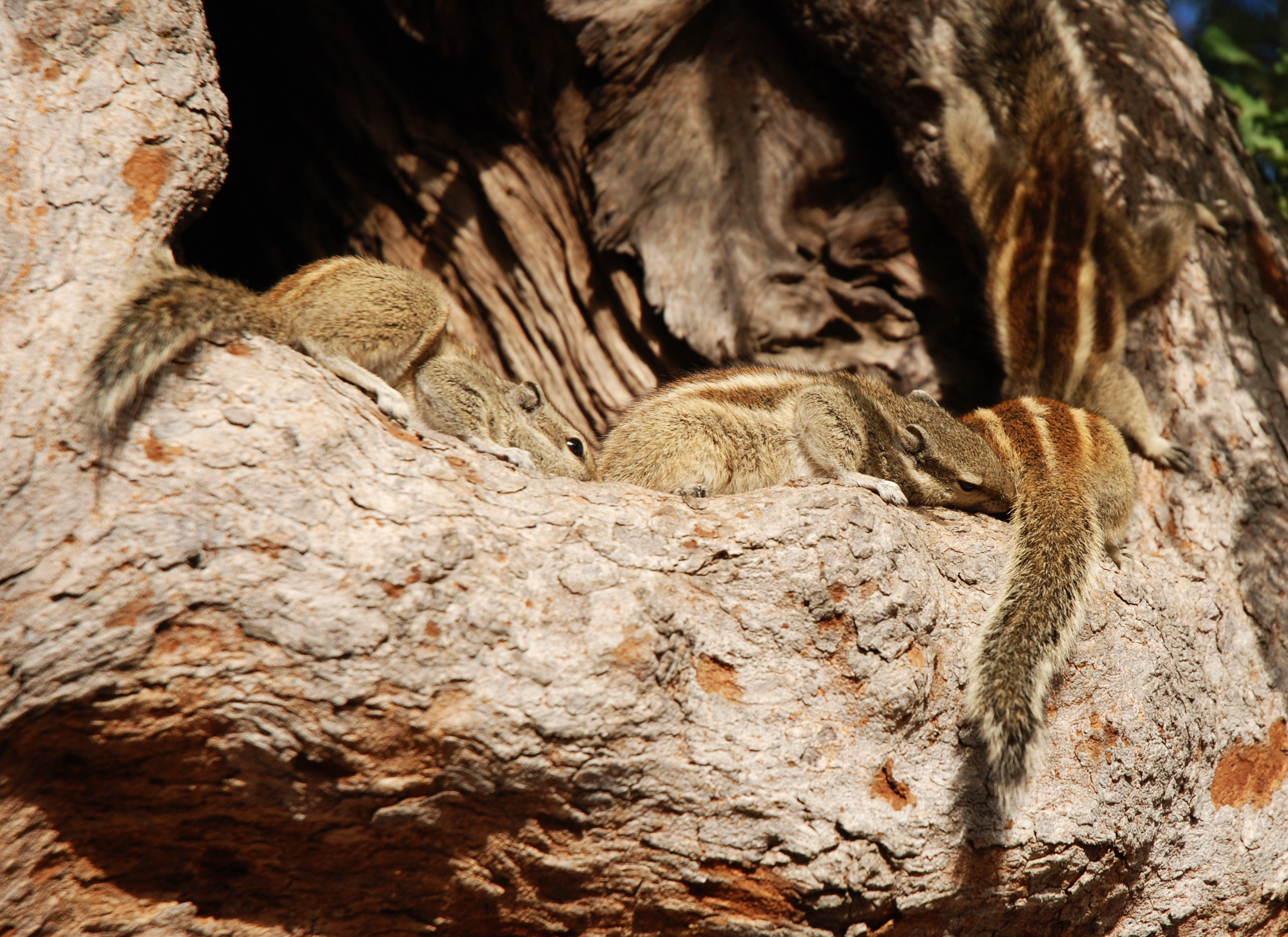 Northern Palm Squirrels (Funambulus pennantii) in Delhi, northern India